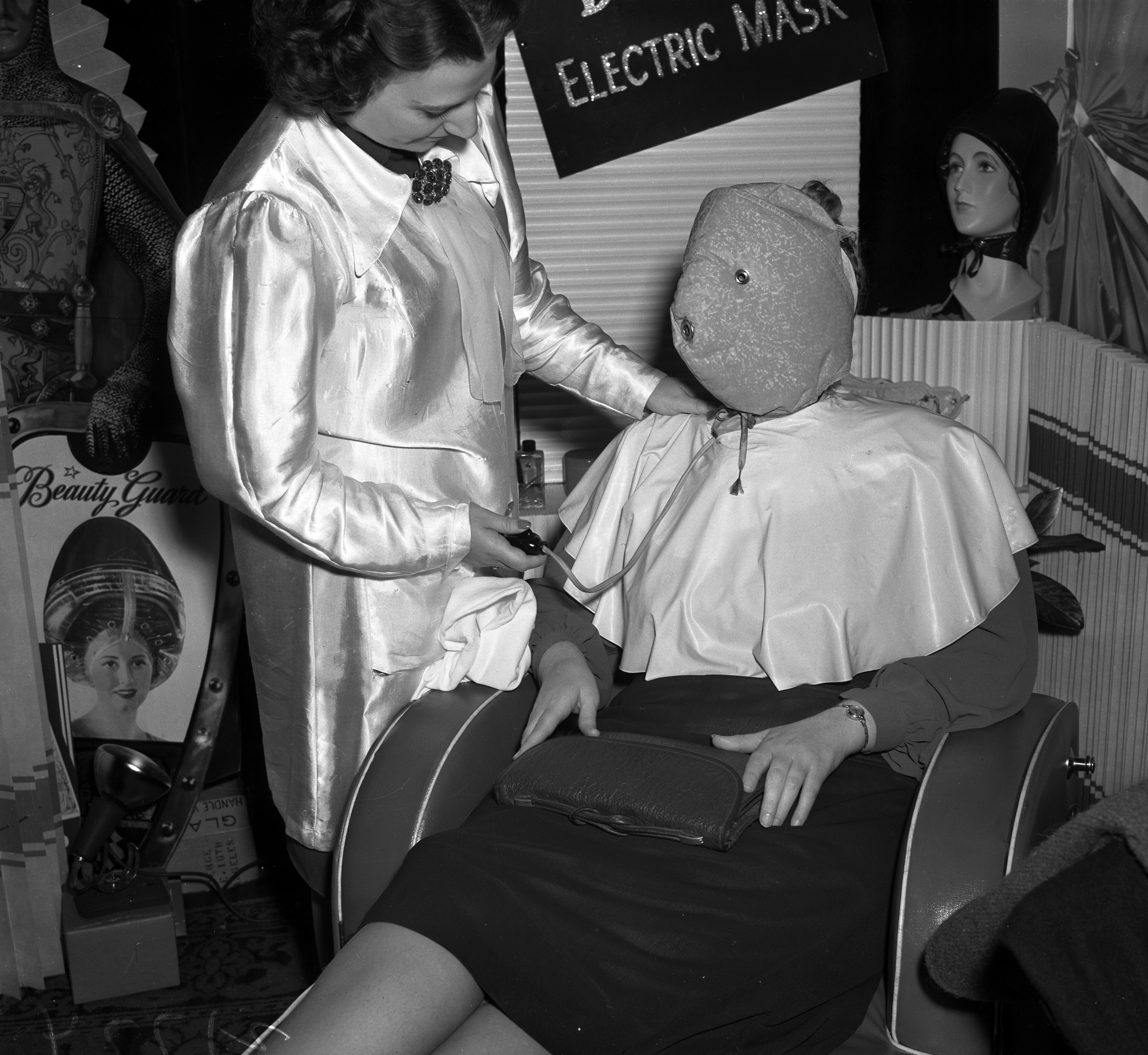 Title: Los Angeles Coiffure Guild woman wearing electric face mask, circa 1939